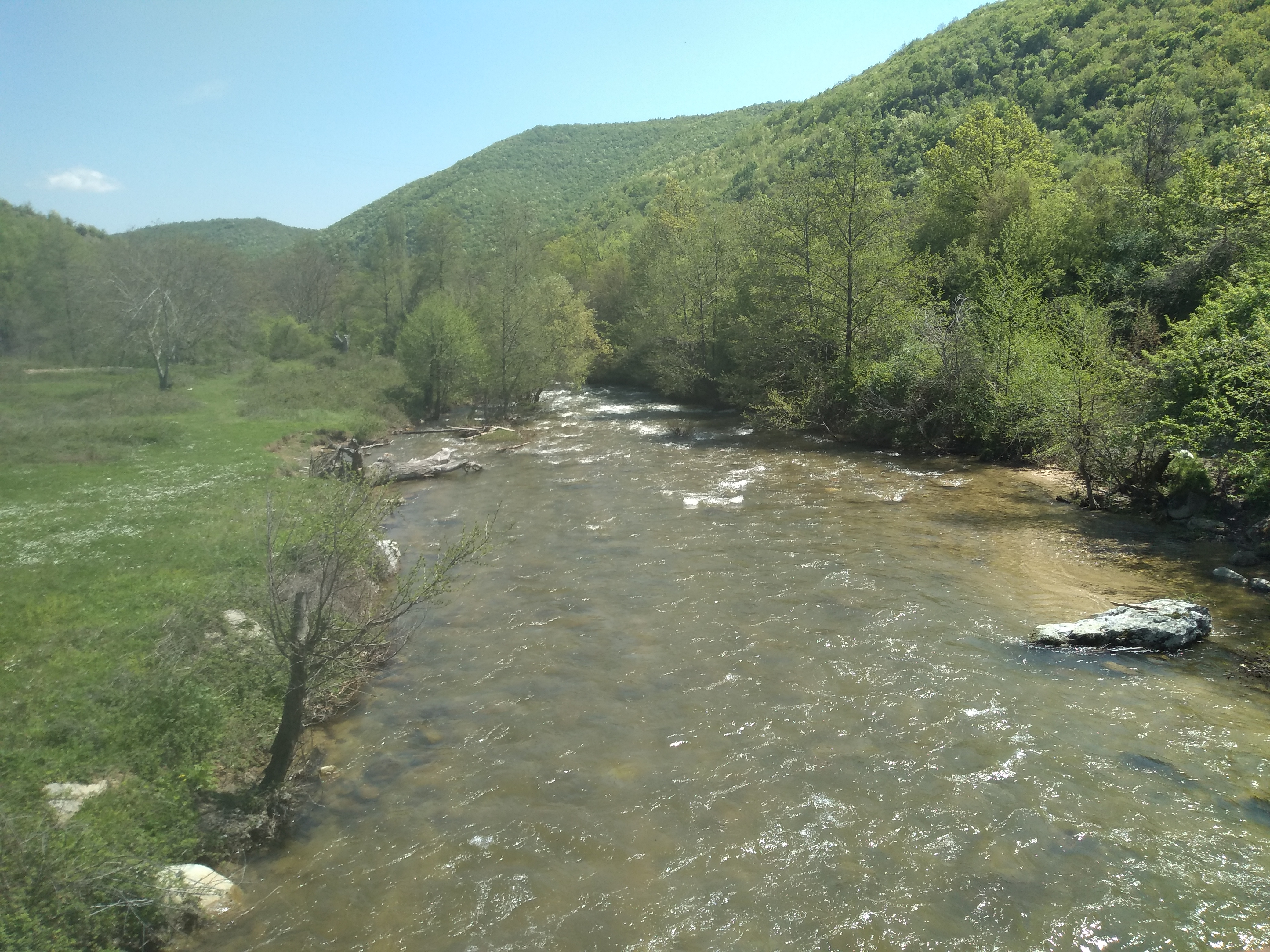 Kadina river near Gumalevo, Macedonia